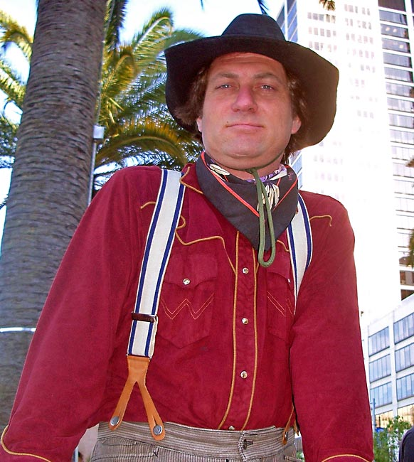 Man wearaing suspenders